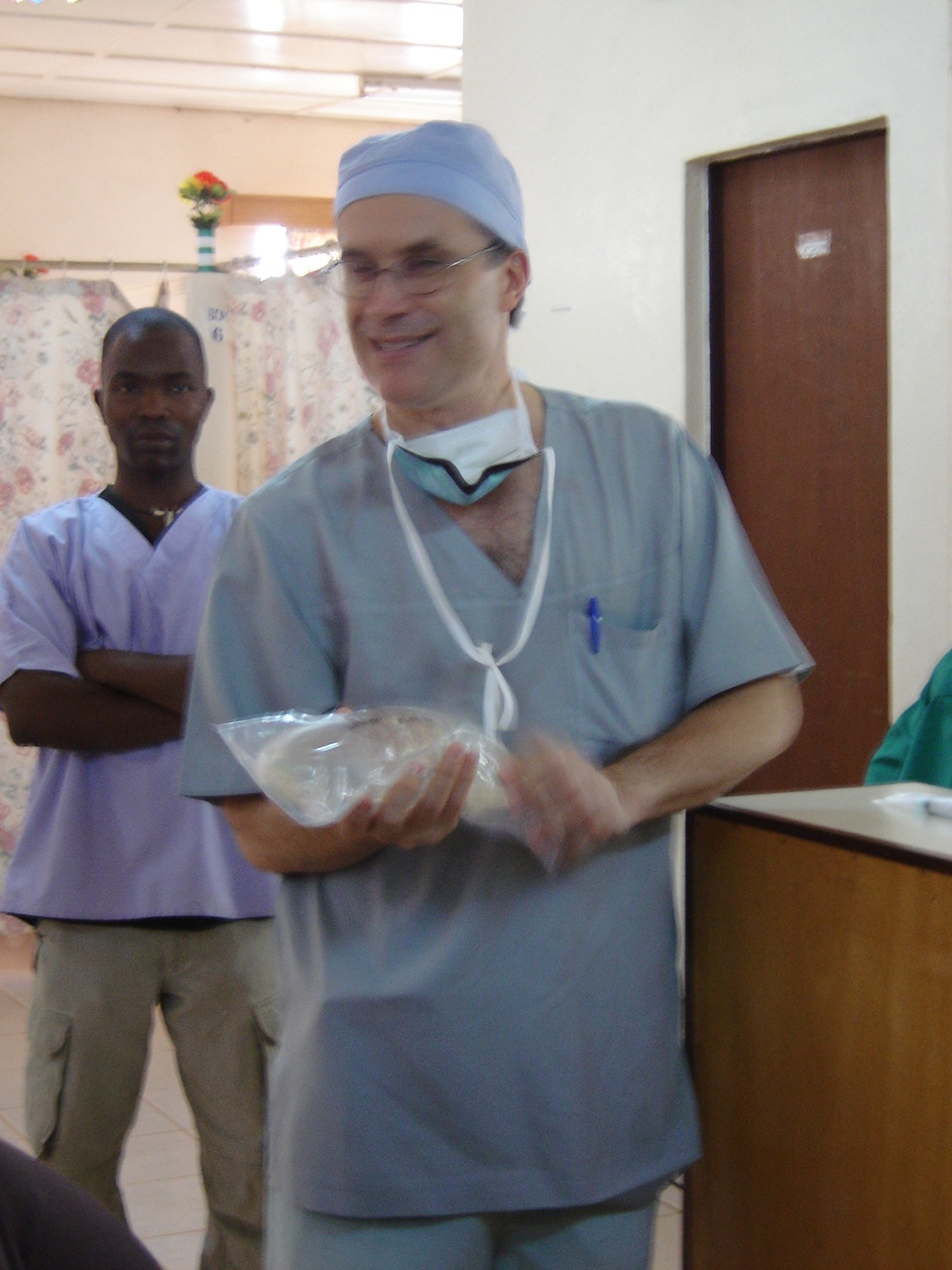 A doctor in the A and E department in the hospital in N'Gaoundere, Cameroon.